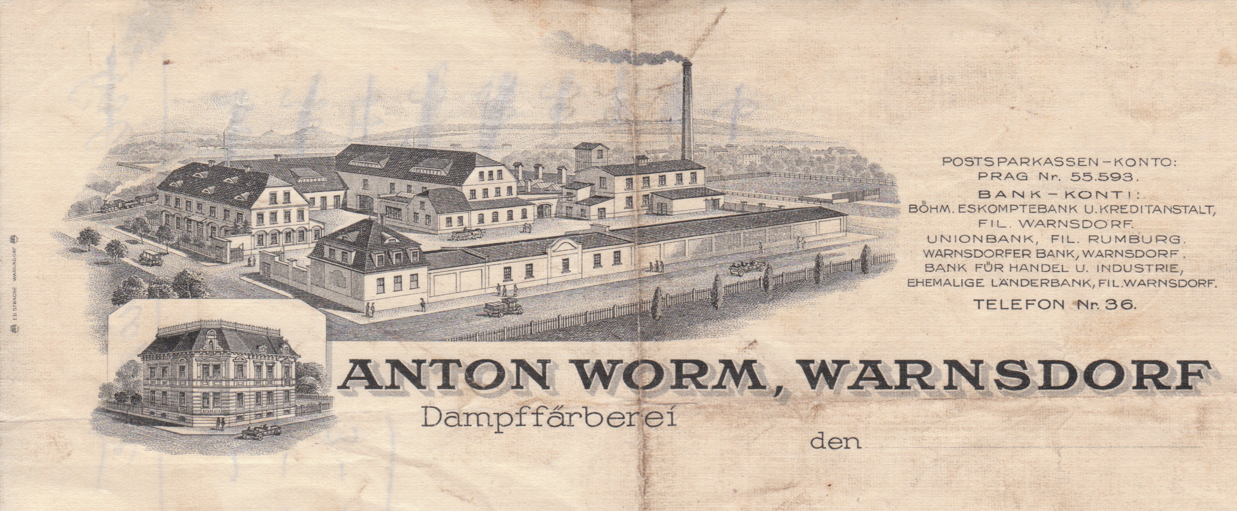 Warnsdorf, Anton Worm, steam dyeworks, headed paper.